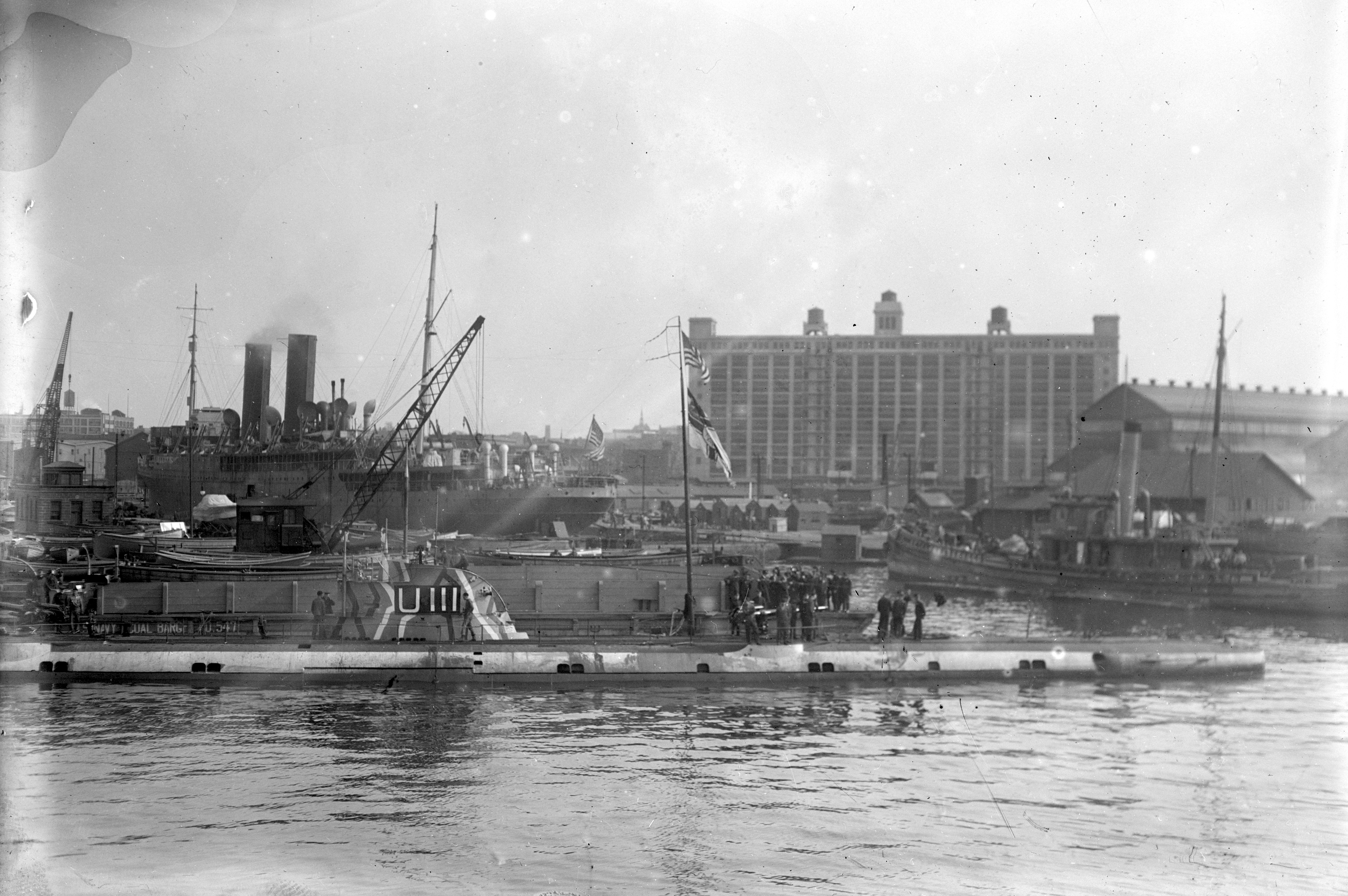 The former German submarine U 111 at New York City (USA), where the boat arrived on 19 April 1919.